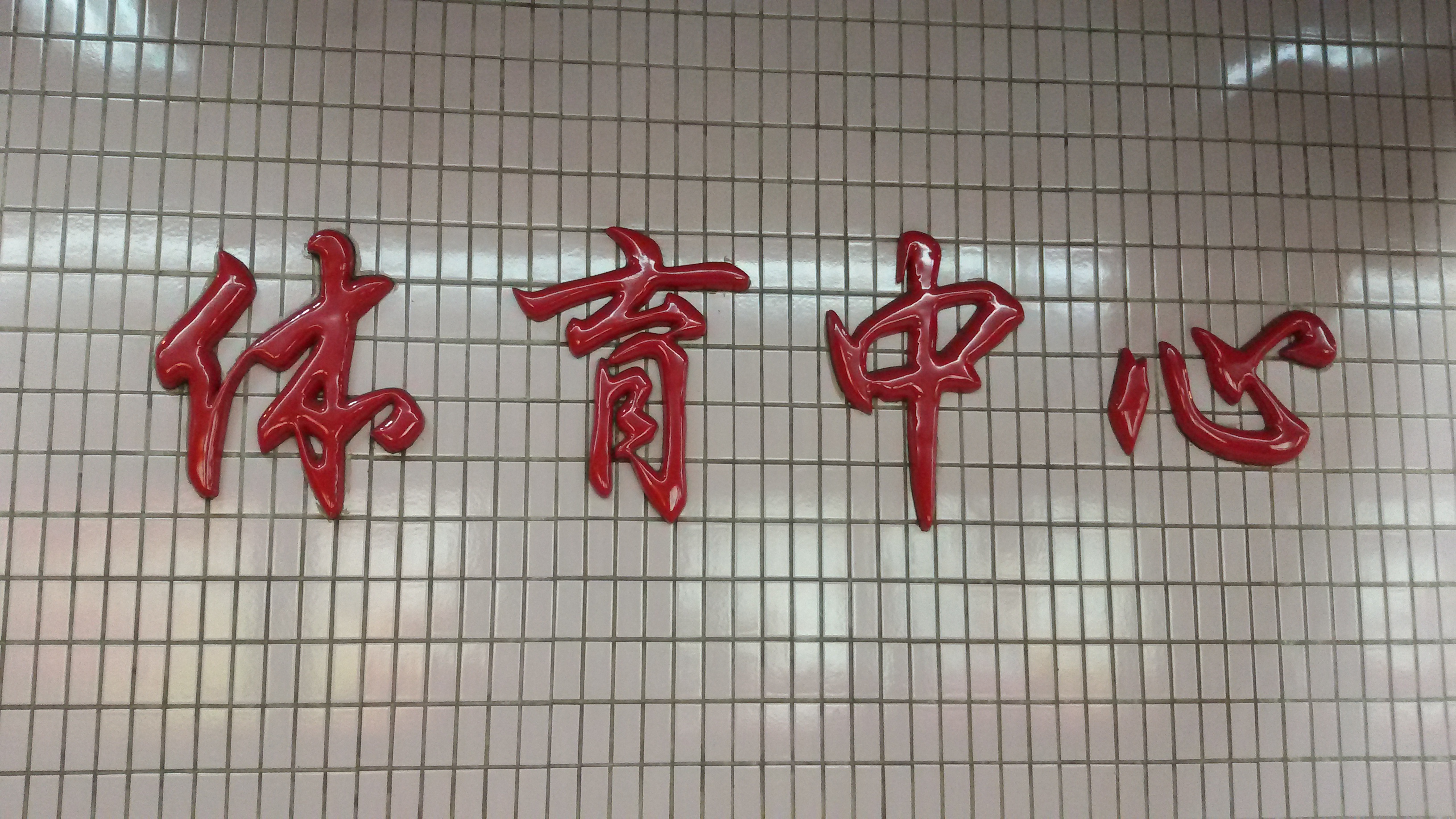 BIG TEXT for Tianhe Sports Center Station in Guangzhou Metro. 粵語: 廣州地鐵，體育中心站入面嘅大字。